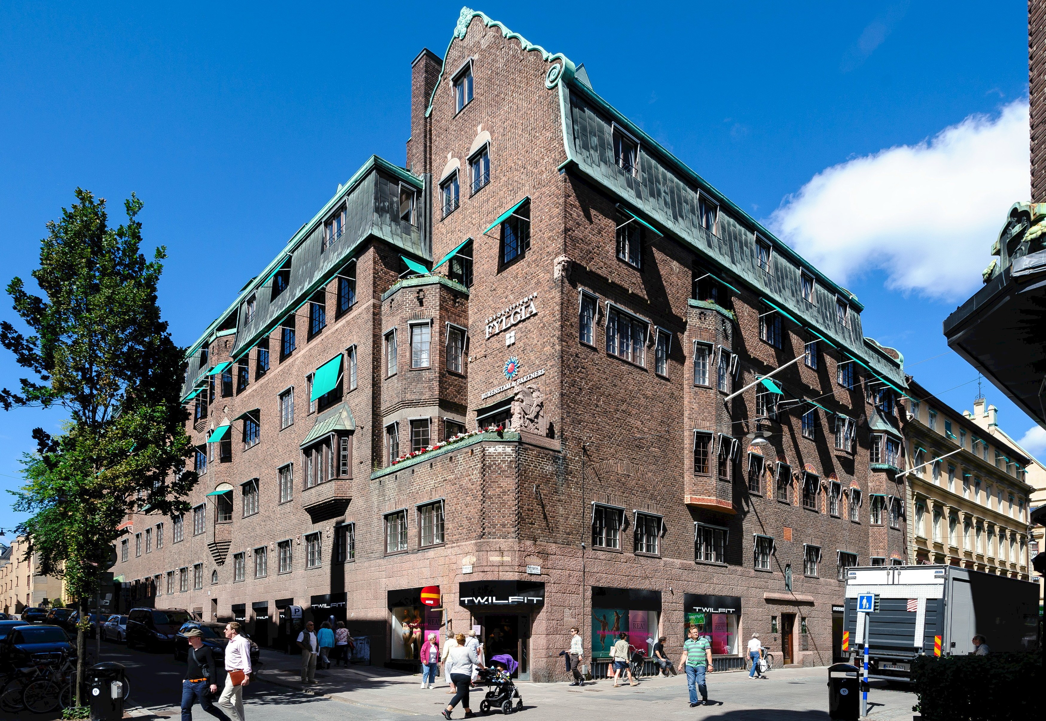 Overall picture of building.